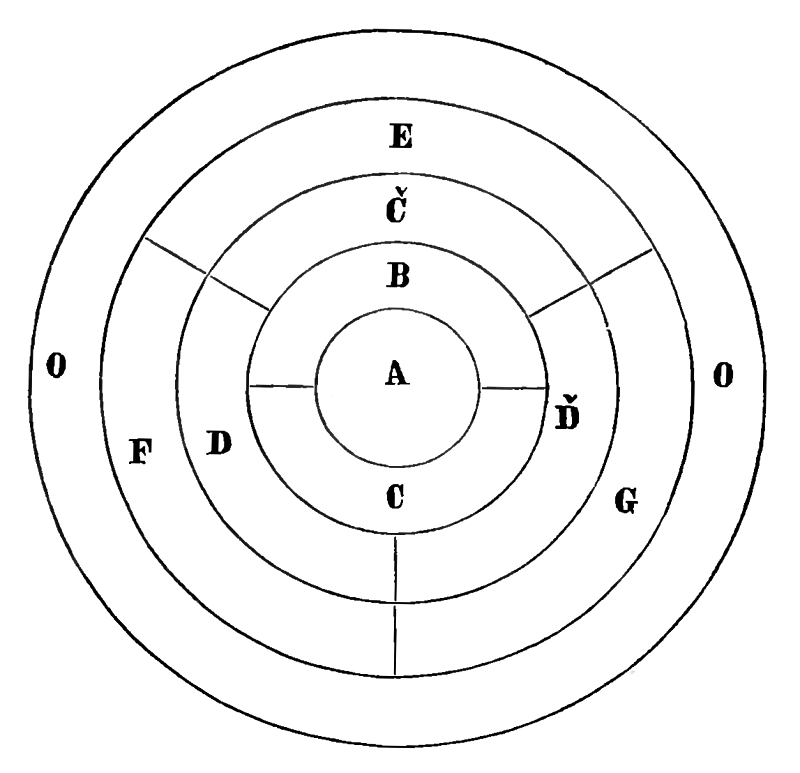 Scheme of Shield of Achilles